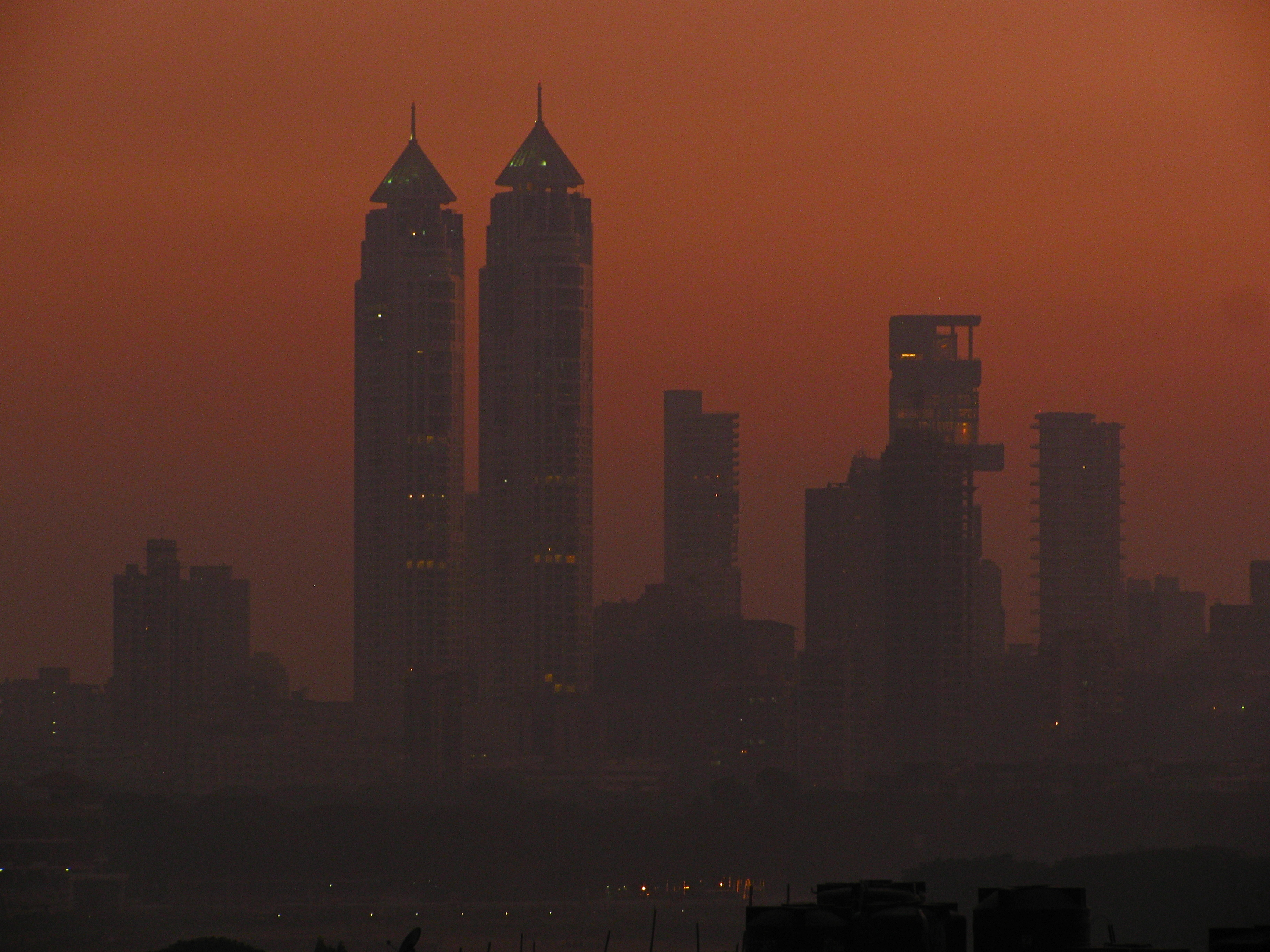 The Imperial Towers, Tardeo , Mumbai